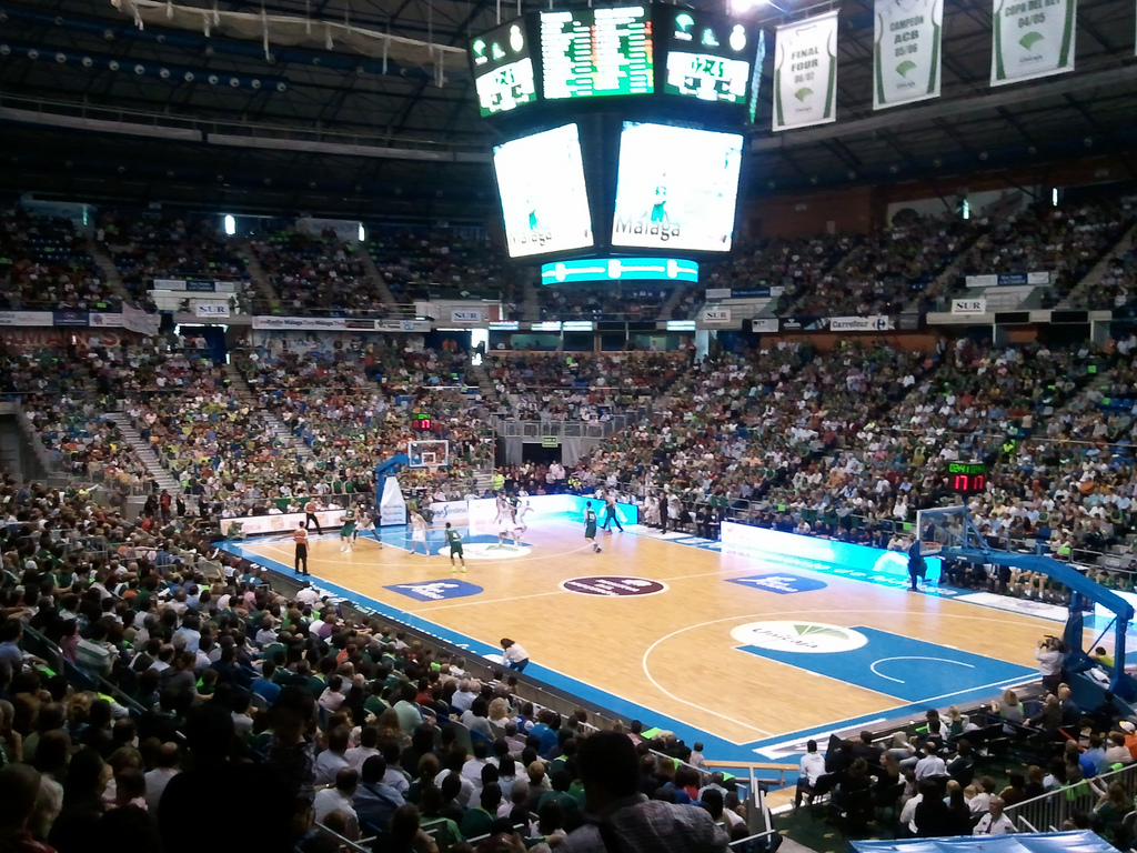 Malaga Basket, Spain.